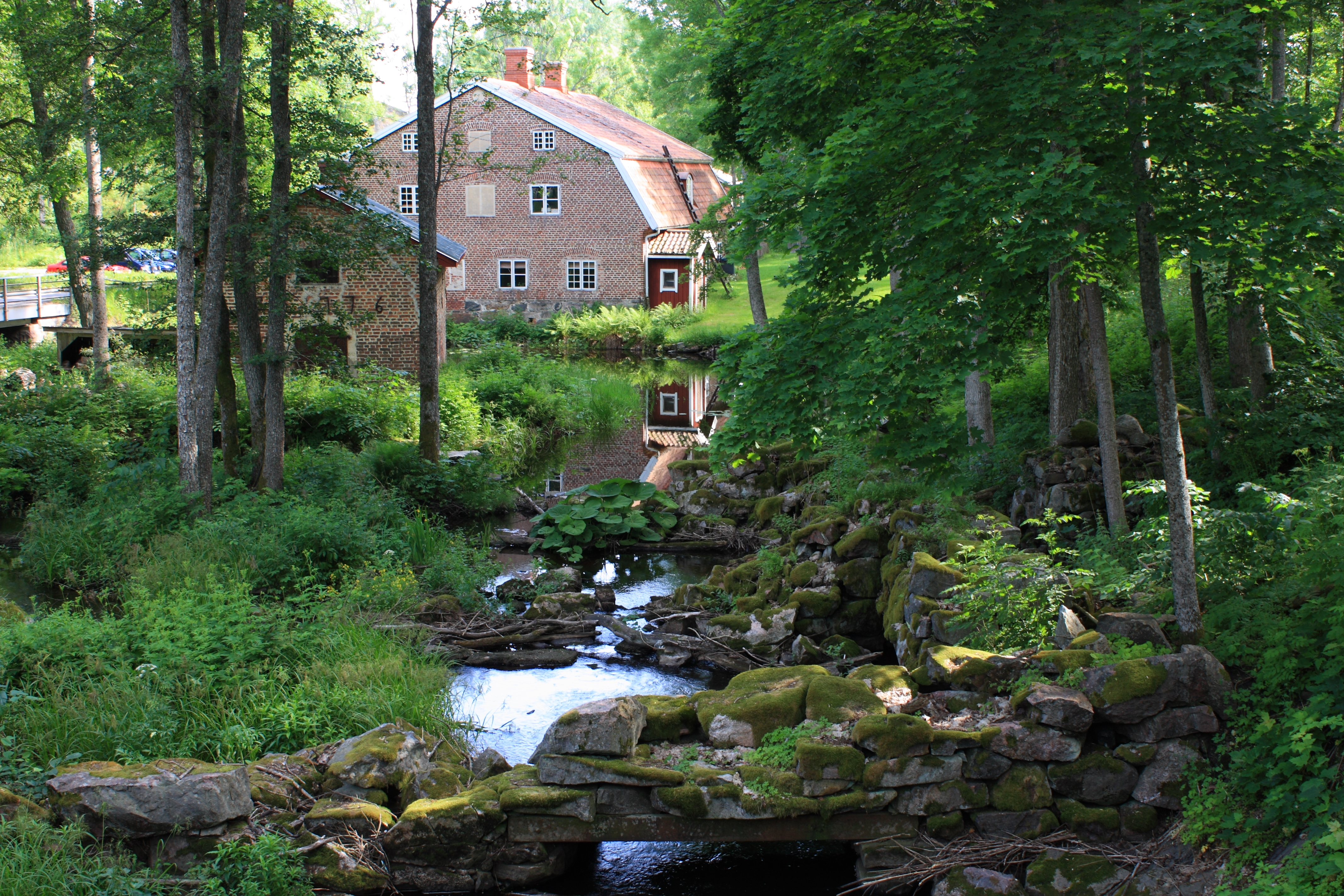 A tinning plant in Fagervik, Inkoo,Finland.